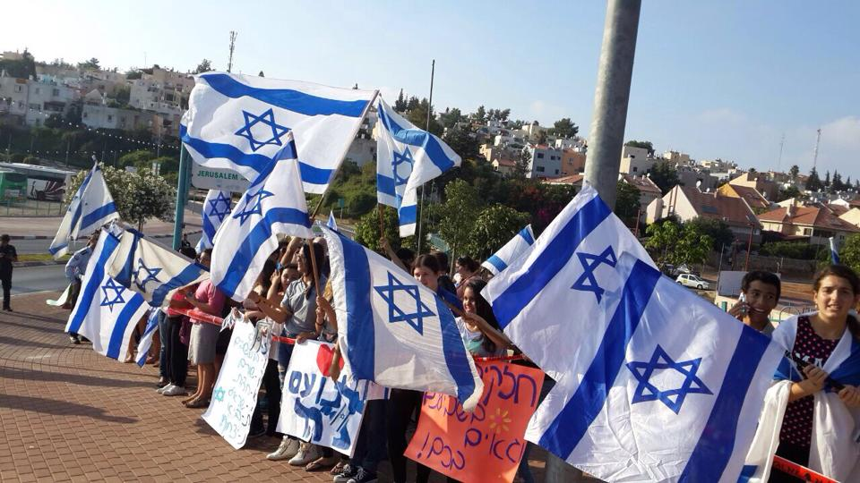 My Israel - a protest to support Israel during Operation Protective Edge (Tzuk Eytan)